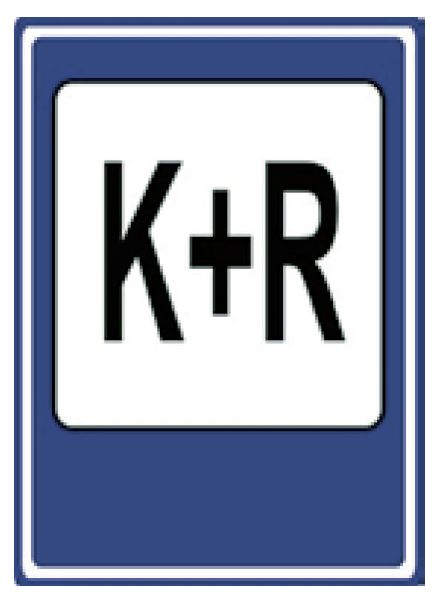 K + R parking site. Road sign of the Czech Republic.